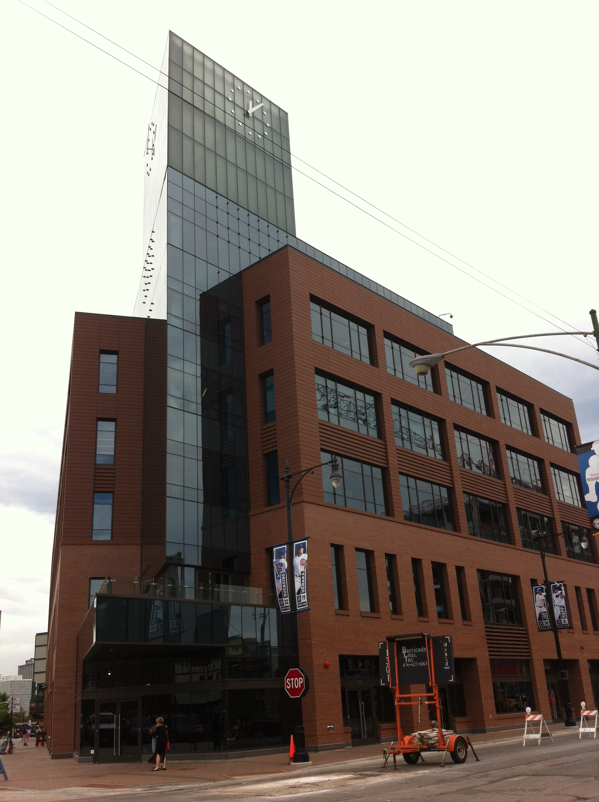 Cubs Office Building